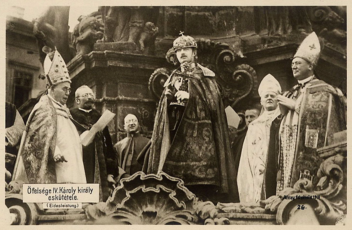 King Charles IV of Hungary taking his coronation oath in Budapest on 30 December 1916. To the left is Cardinal János Csernoch, Archbishop of Esztergom and Primate of Hungary.